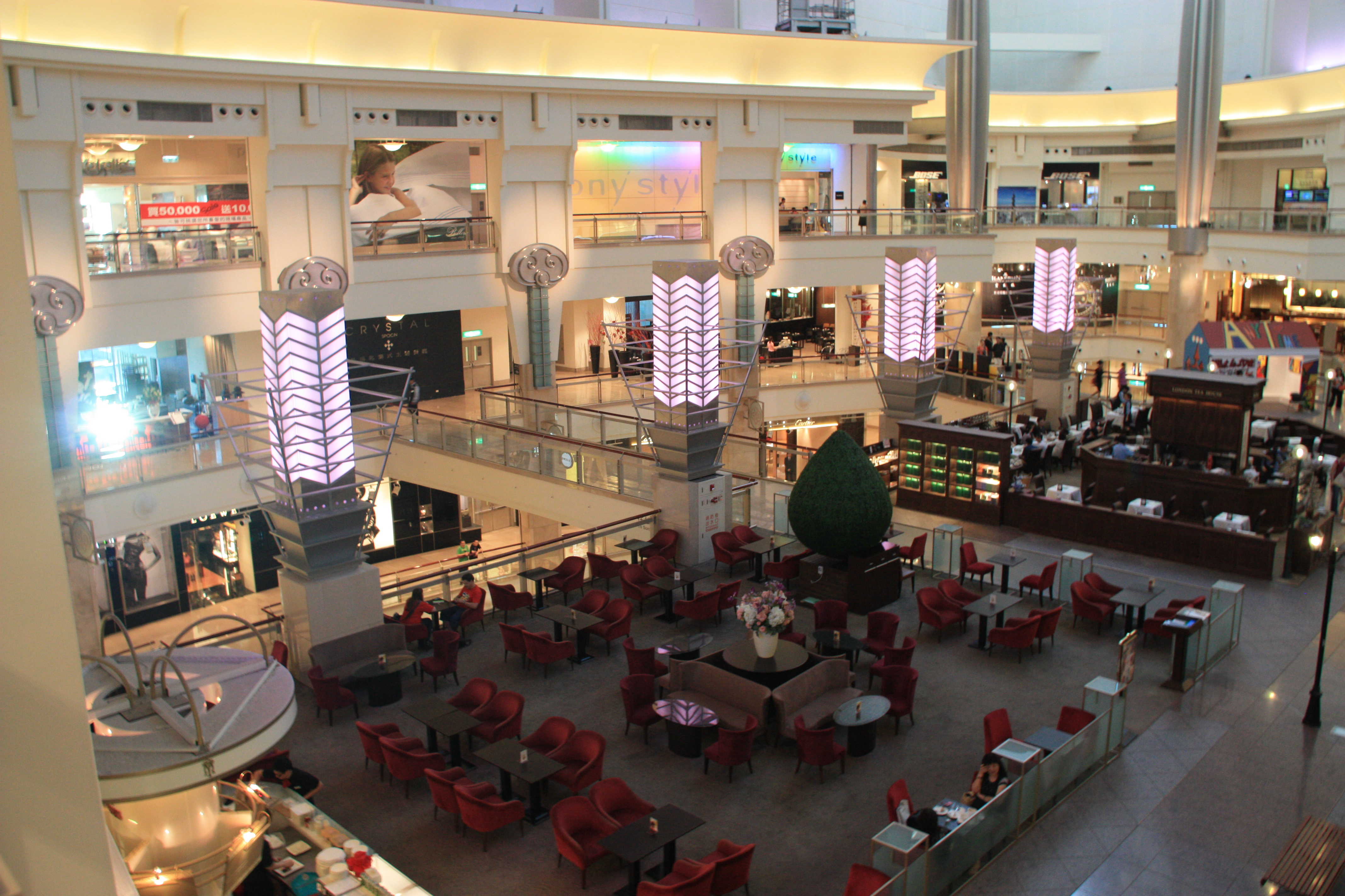 Táiběi Xìnyì District Táiběi 101 Mall